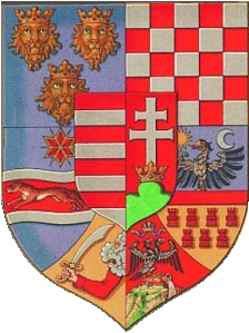 The coat of arms cropped out of File:Wappen_Ungarische_Länder_1915_(Mittel).png. The image is also slightly edited to restore alignment. Intended for the Blazon article as the rest of the image is irrelevant. The original description follows.